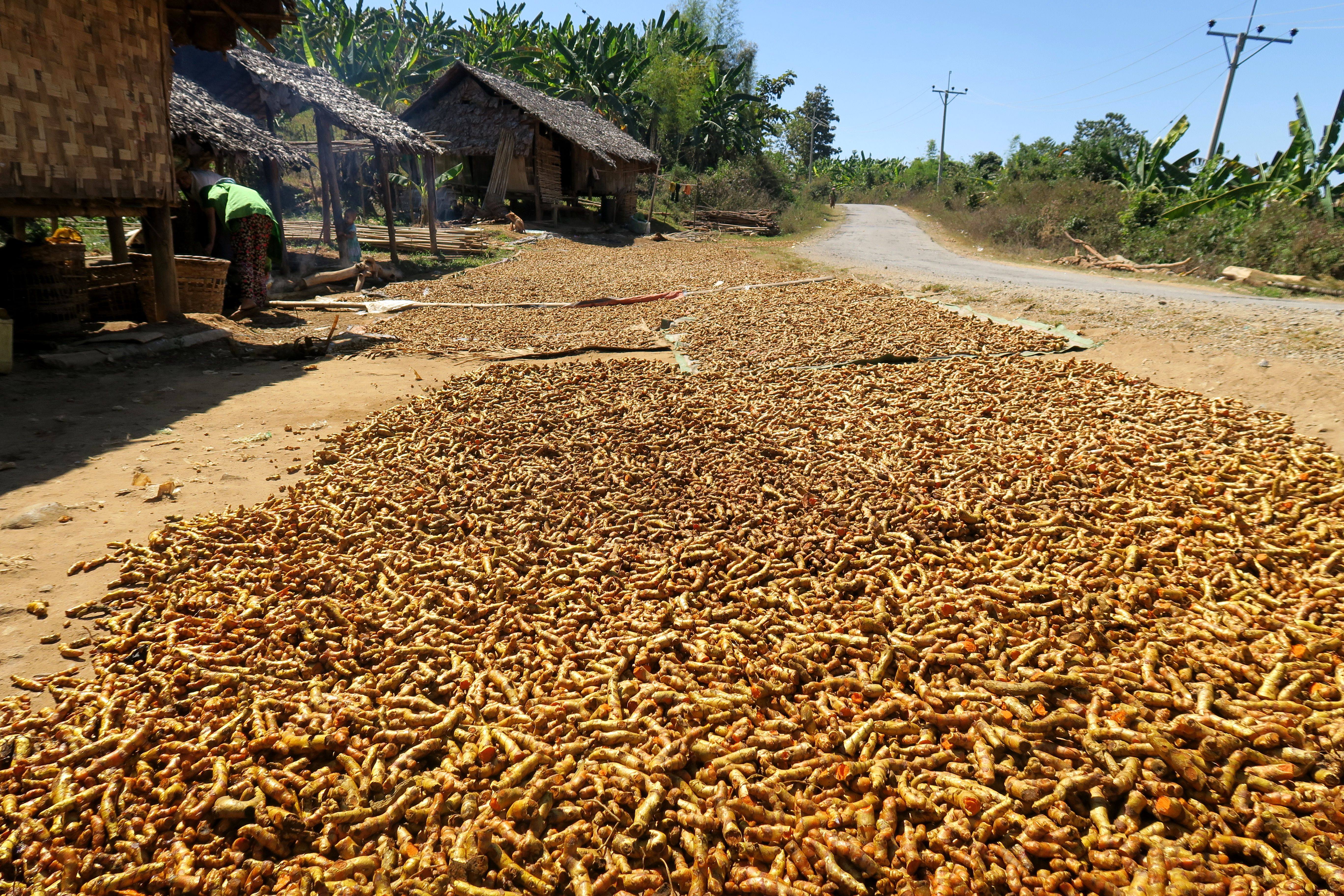 Drying turmeric rhyzomes in Myanmar.